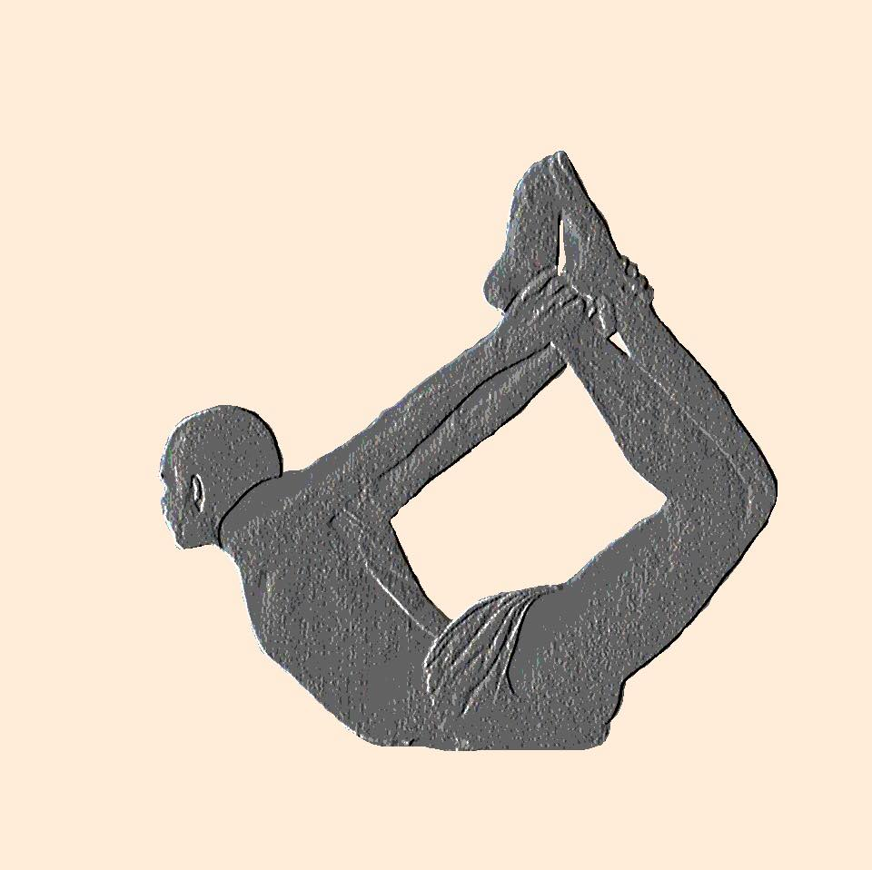 Dhanurāsana ◦ Bow I yoga āsana. This image-processed file is not compliant with the WikiProject Yoga image guidelines and must not be used in any Wikipedia Yoga article.